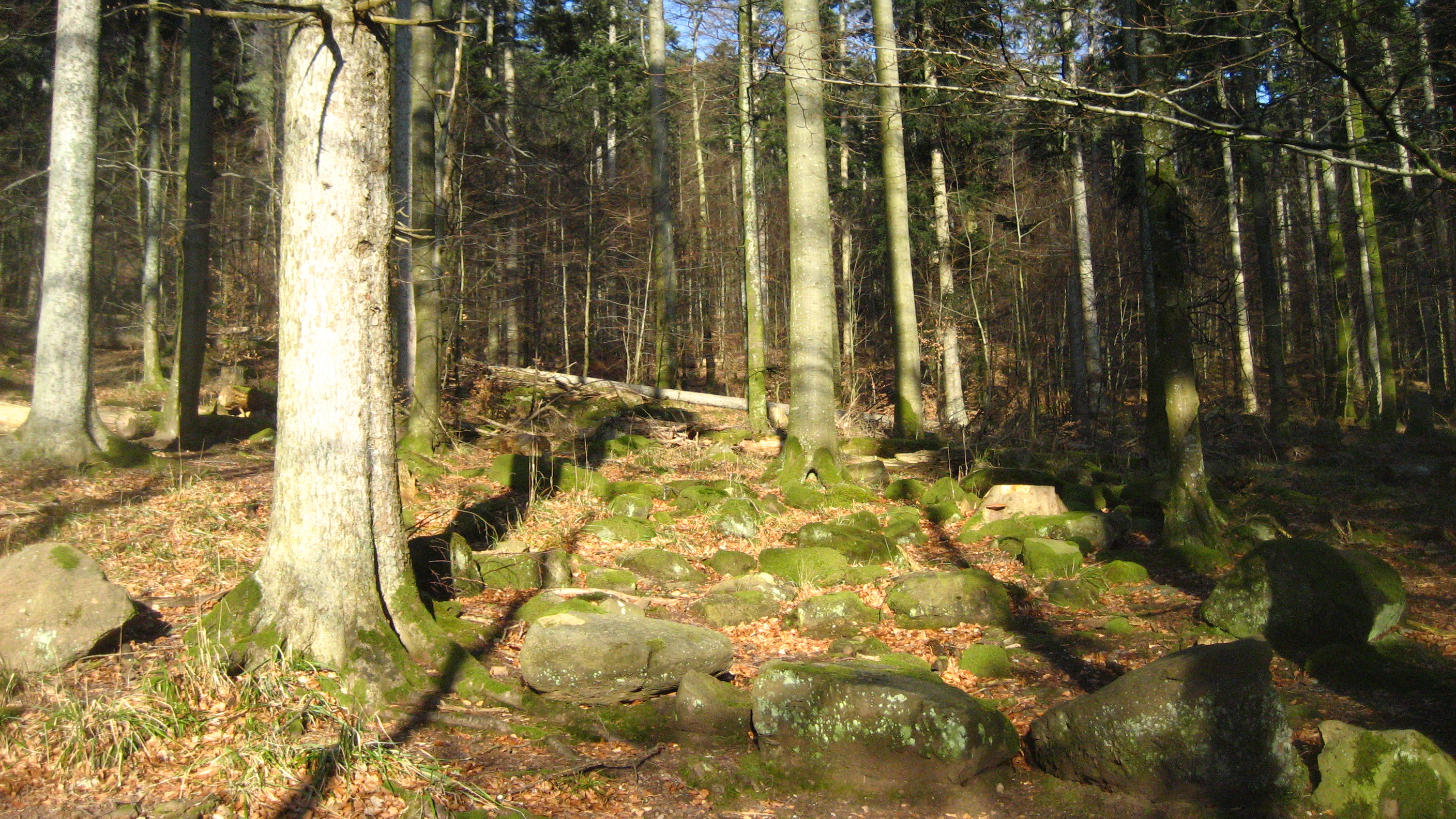 The Nideck Forest, Alsace, France.